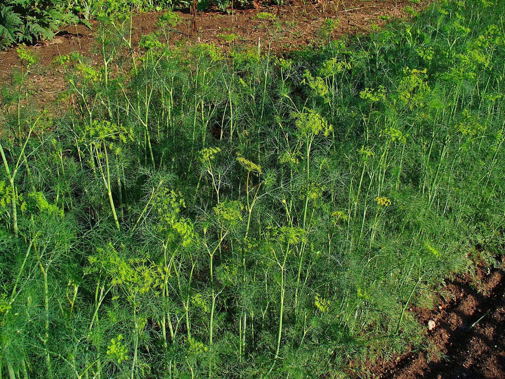 Anethum graveolens, Apiaceae, Dill, habitus. The plant is used in homeopathy as remedy: Anethum graveolens (Anet-g.)